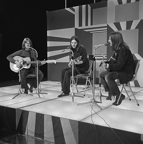 America in AVRO's TopPop (Dutch television show) in 1972